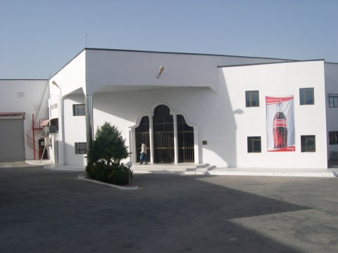 The United Bottling Company in Mogadishu, Somalia --A Coca-Cola bottling company. Photograph not copyrighted. Non-commercial photo. Taken by an individual who recently visited Somalia. Picture was taken sometime between December 2004 and February 2005. Posted with permission granted to me from that individual. RJII 05:55, 9 June 2006 (UTC) barre